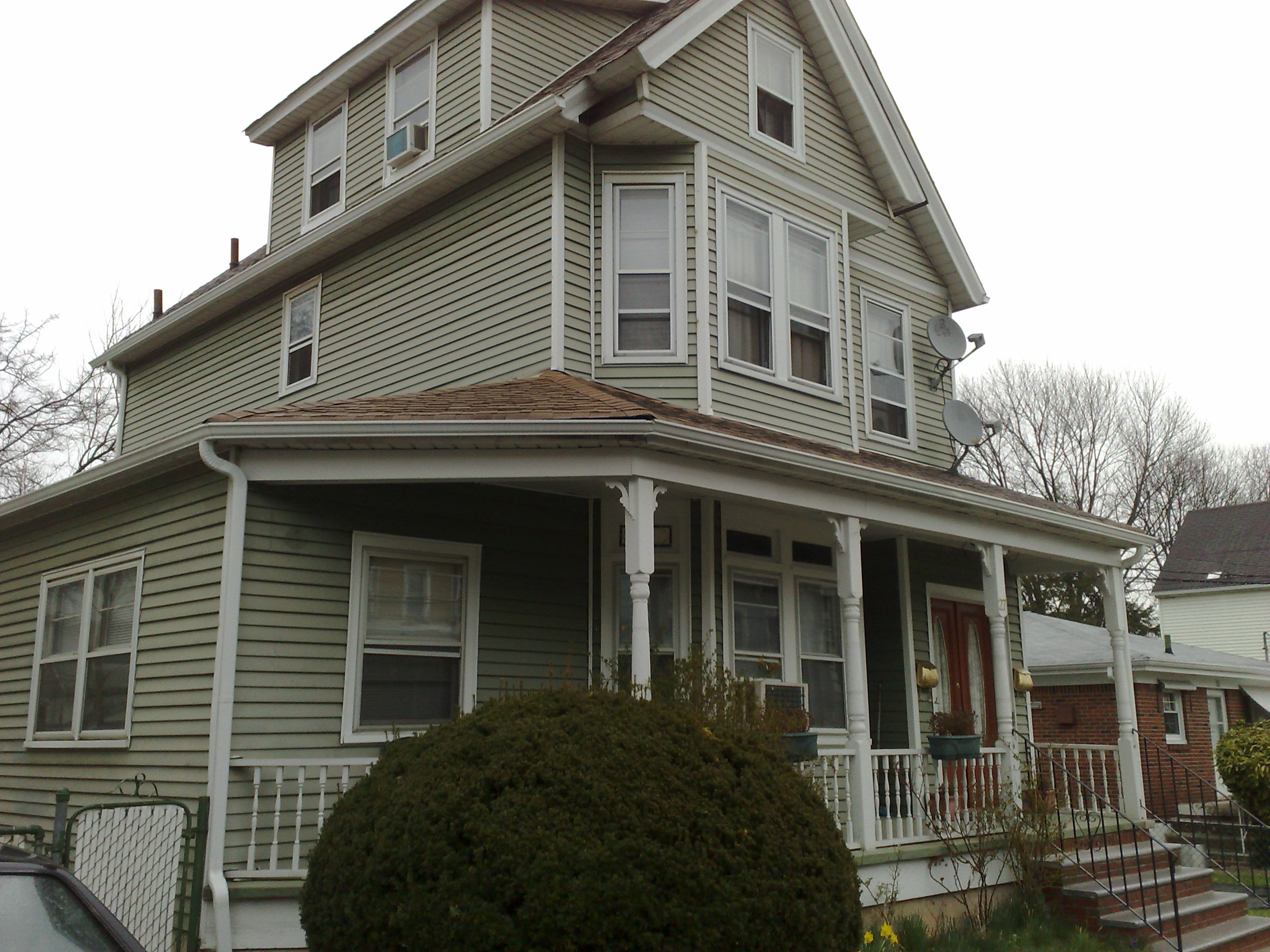 tipical House in Staten Island (NY)